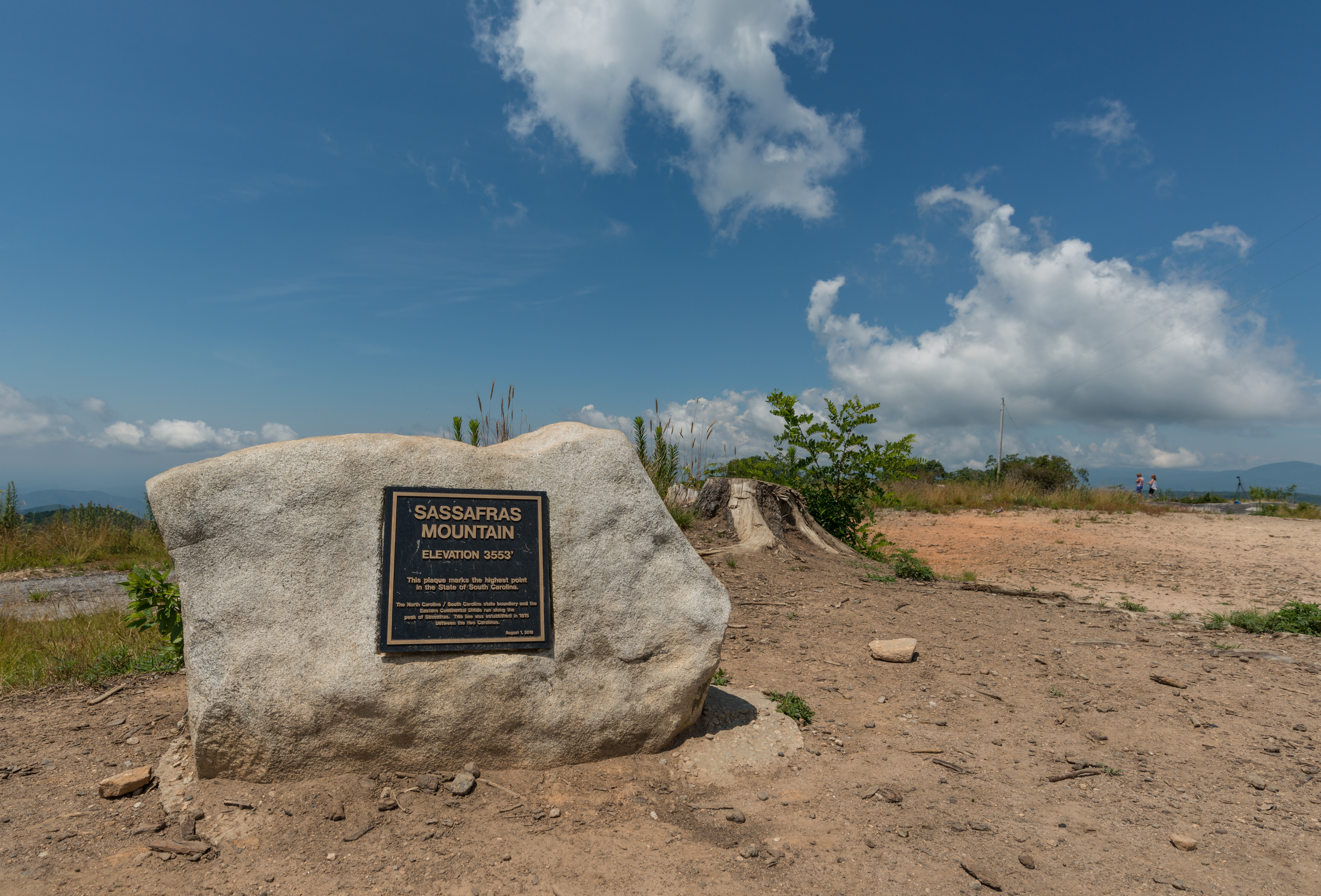 A view of the elevation marker on Sassafras Mountain, the highest point in South Carolina